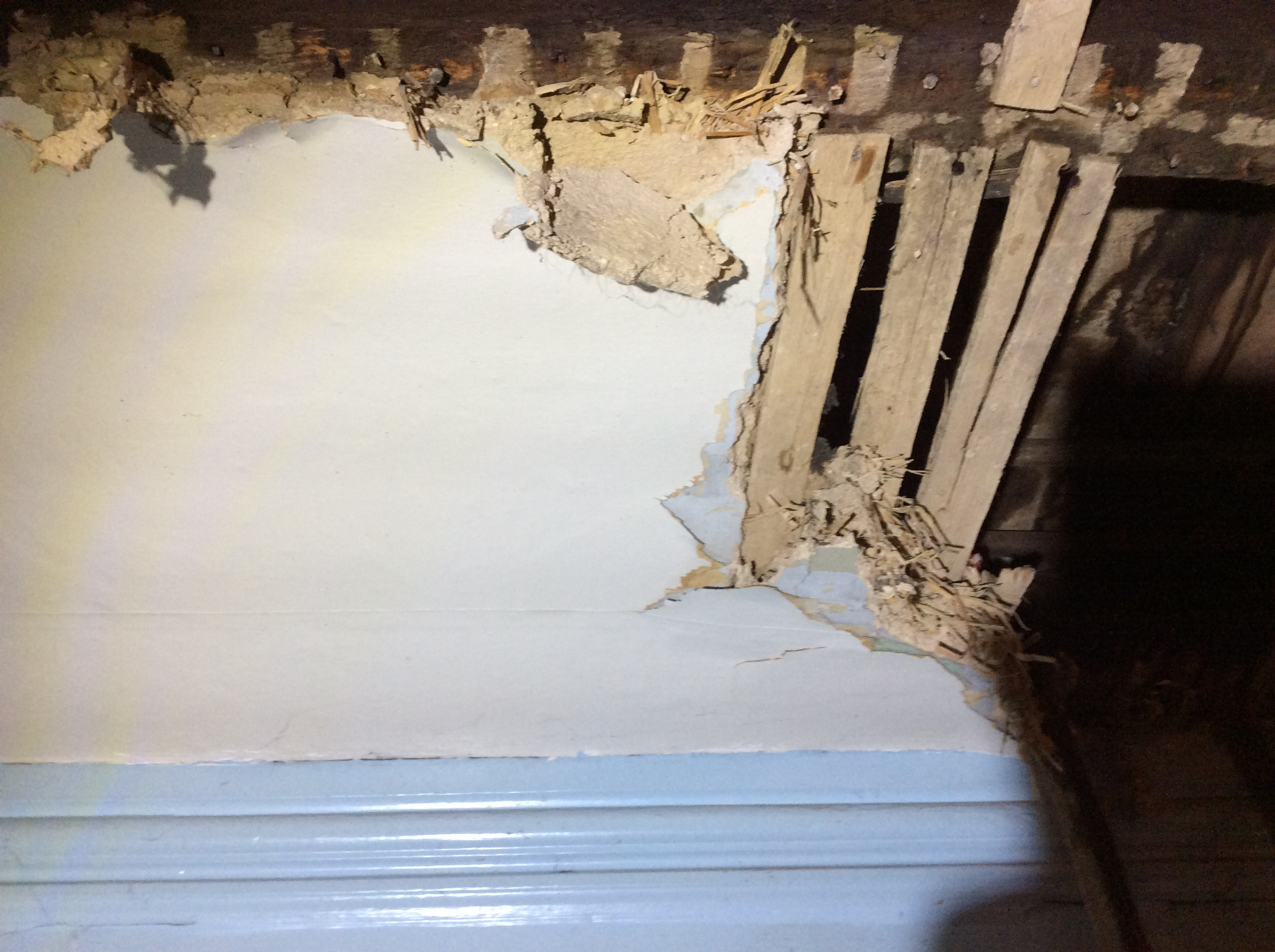 Clay plaster on split oak lath with lime plaster setting coat at Economy Landmark District, Ambridge, PA, USA